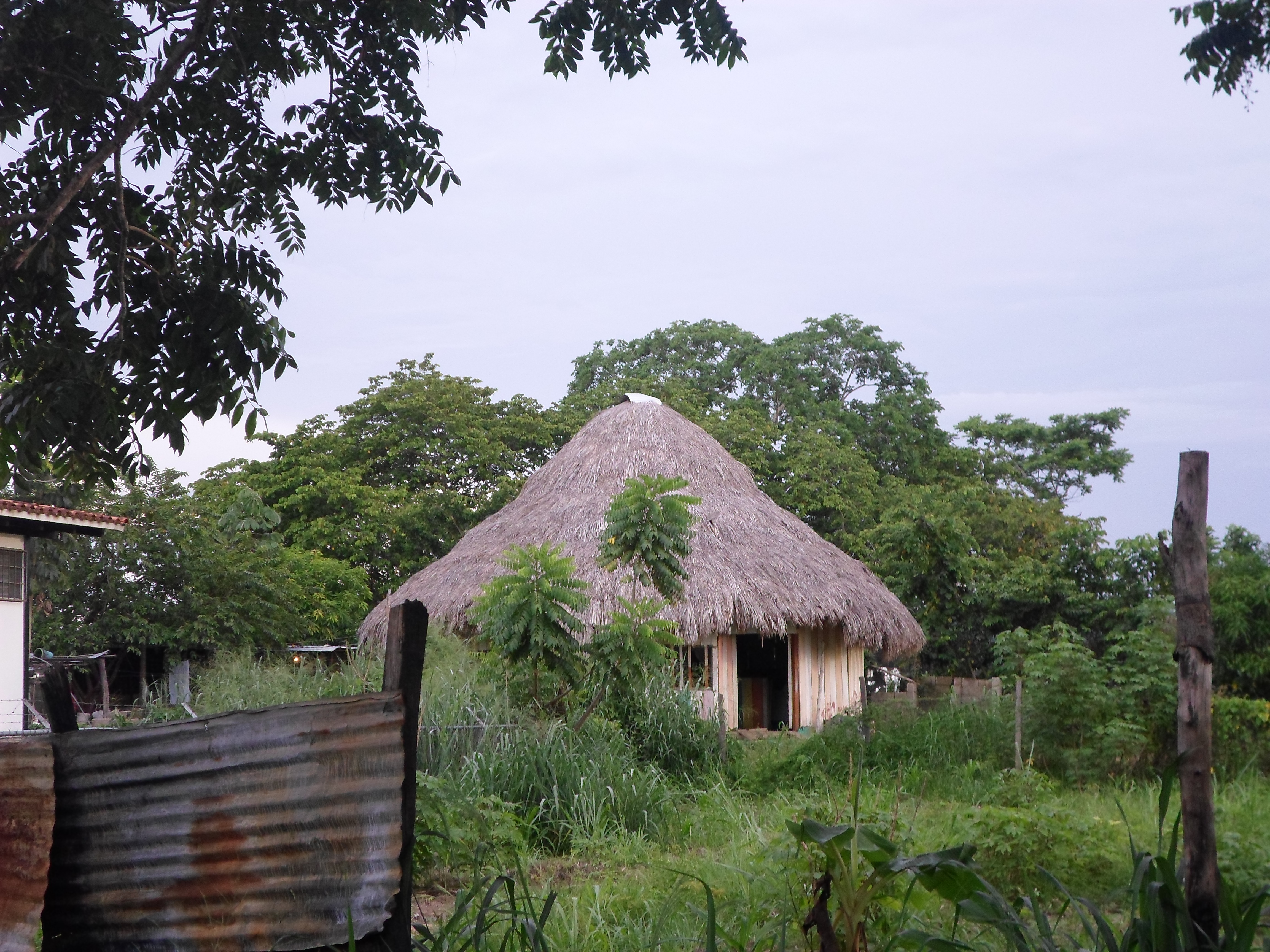 traditionnal Piaroa hut.